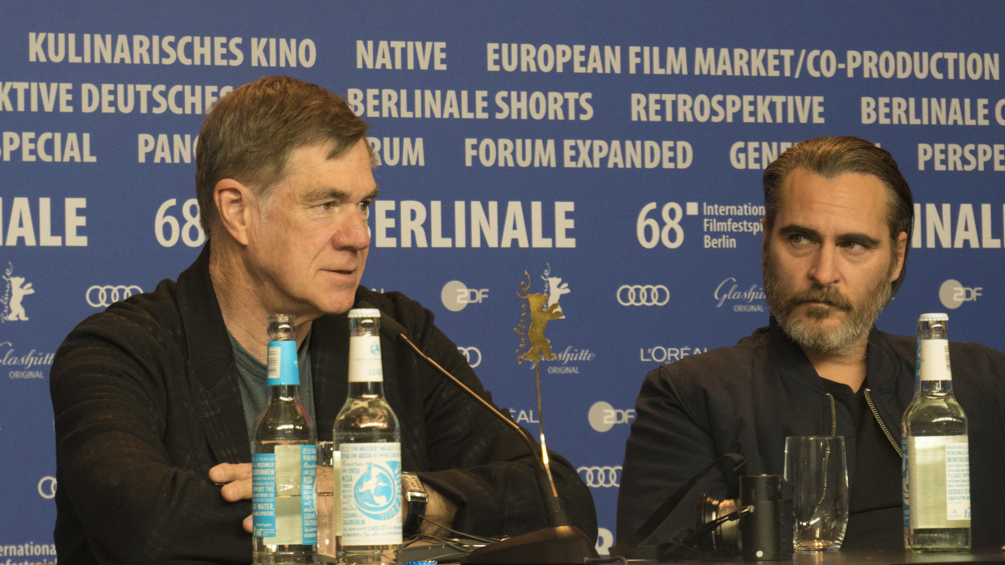 Press conference of Don't Worry, He Won't Get Far on Foot by Gus Van Sant at Berlinale 2018. Pictured, Van Sant and Joaquin Phoenix.